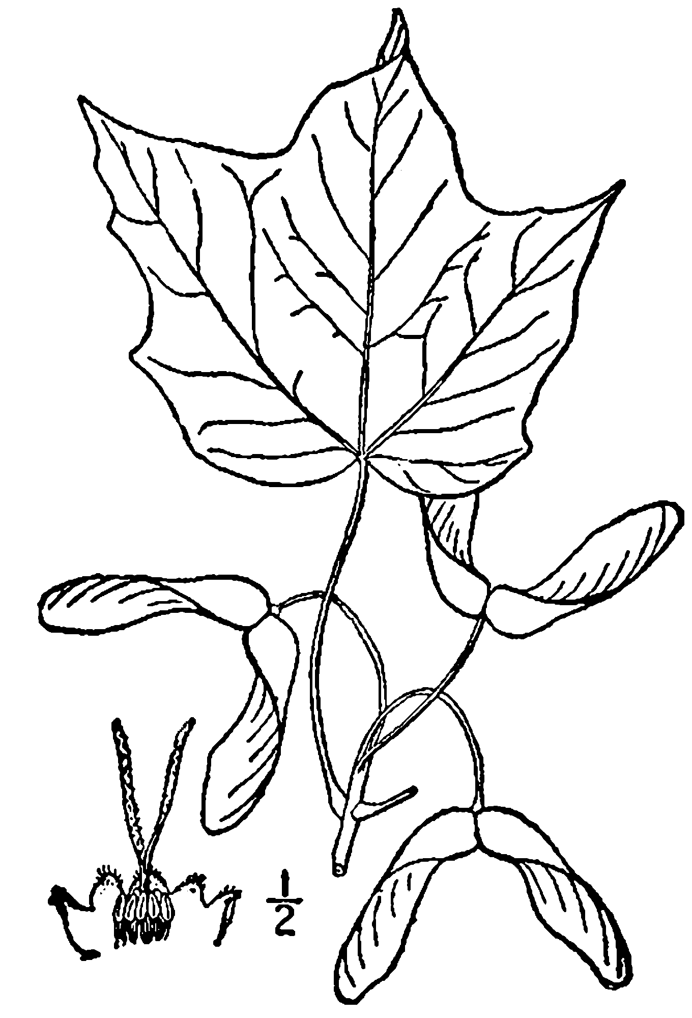 Black Maple. Drawing.